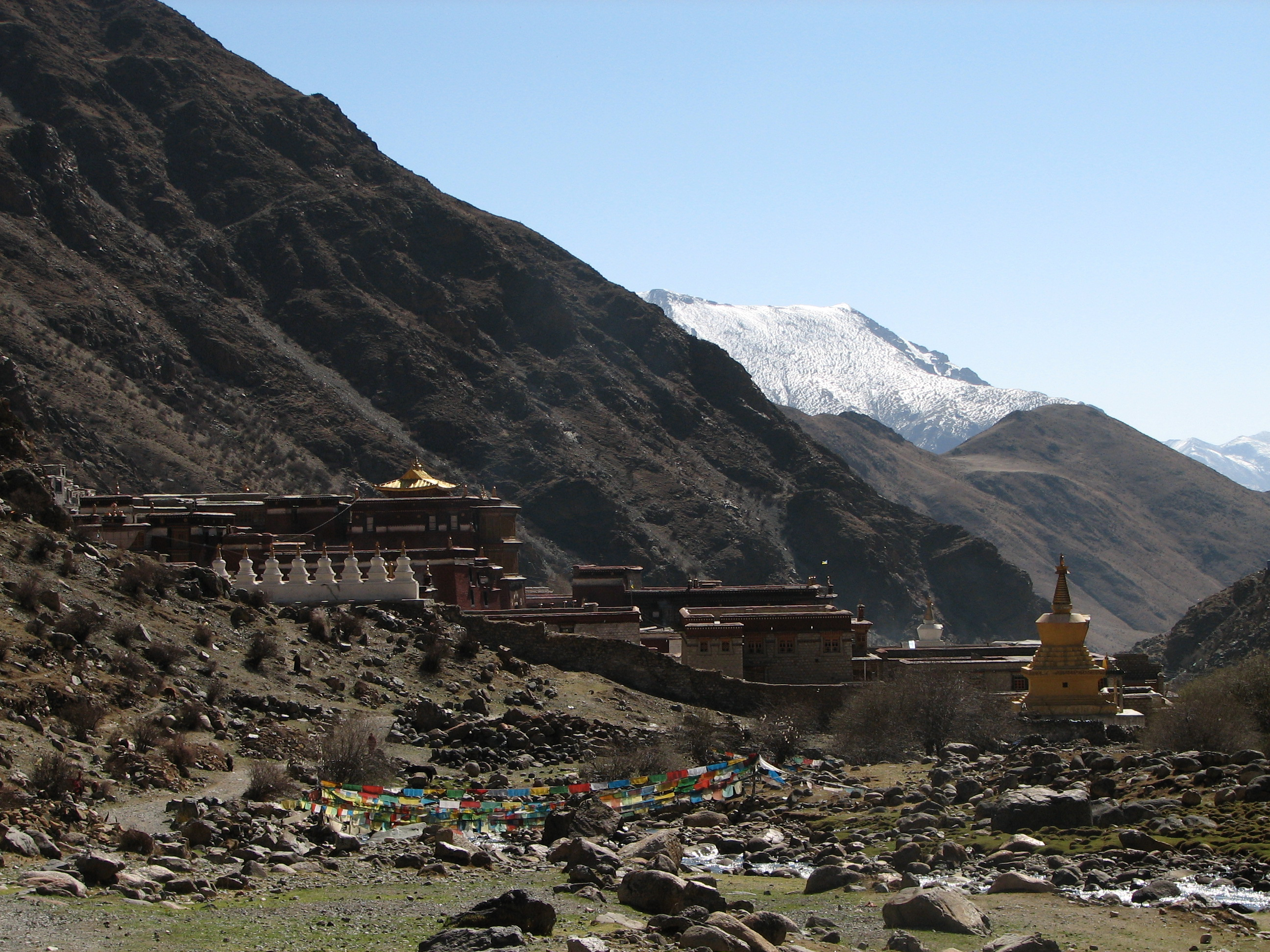 Trekking 3 days from Tsurpu Monastery to Yangpachen Monastery.